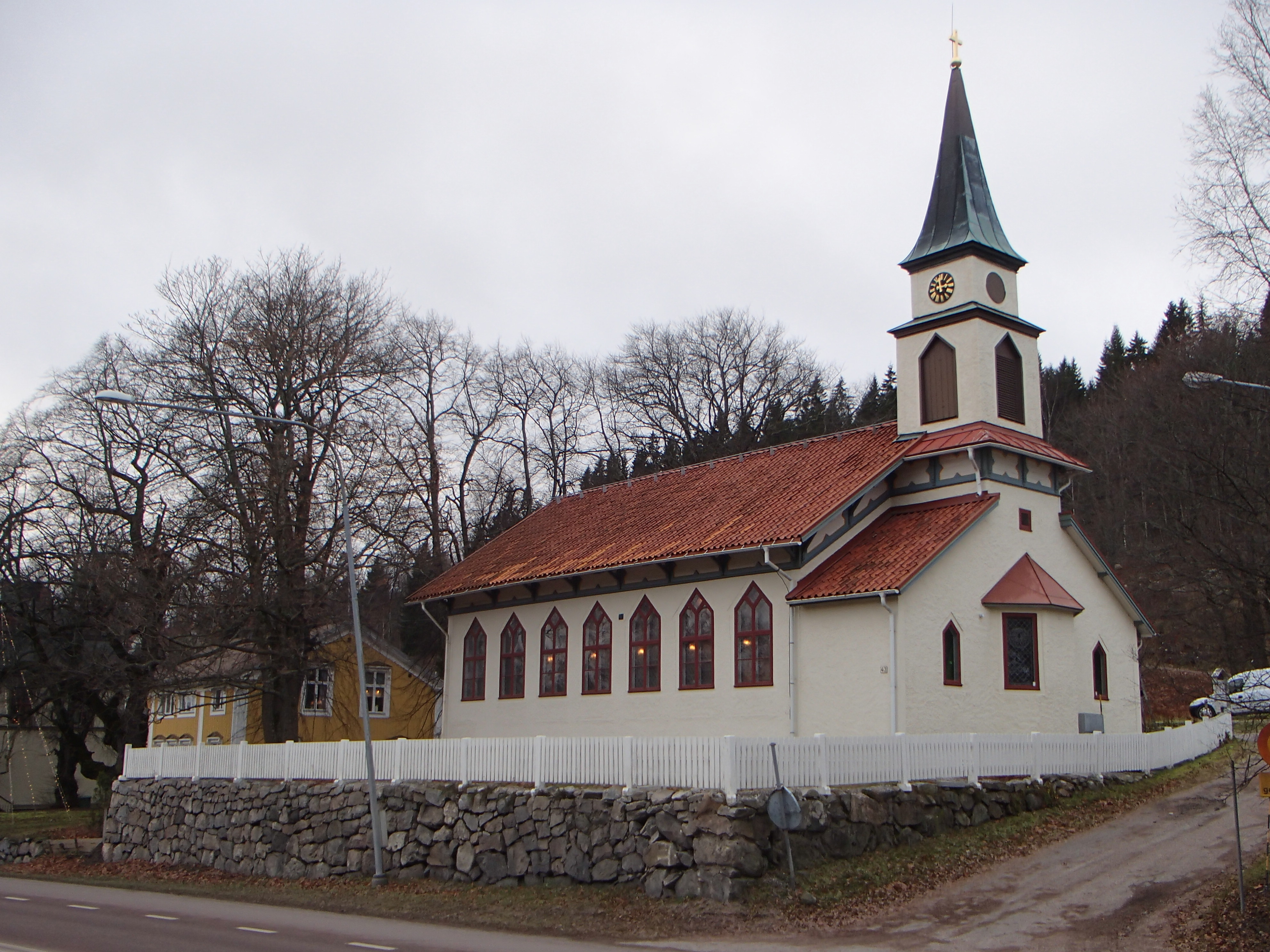 The church building of "Svartviks kyrka" in Svartvik, Sundsvall Municipality